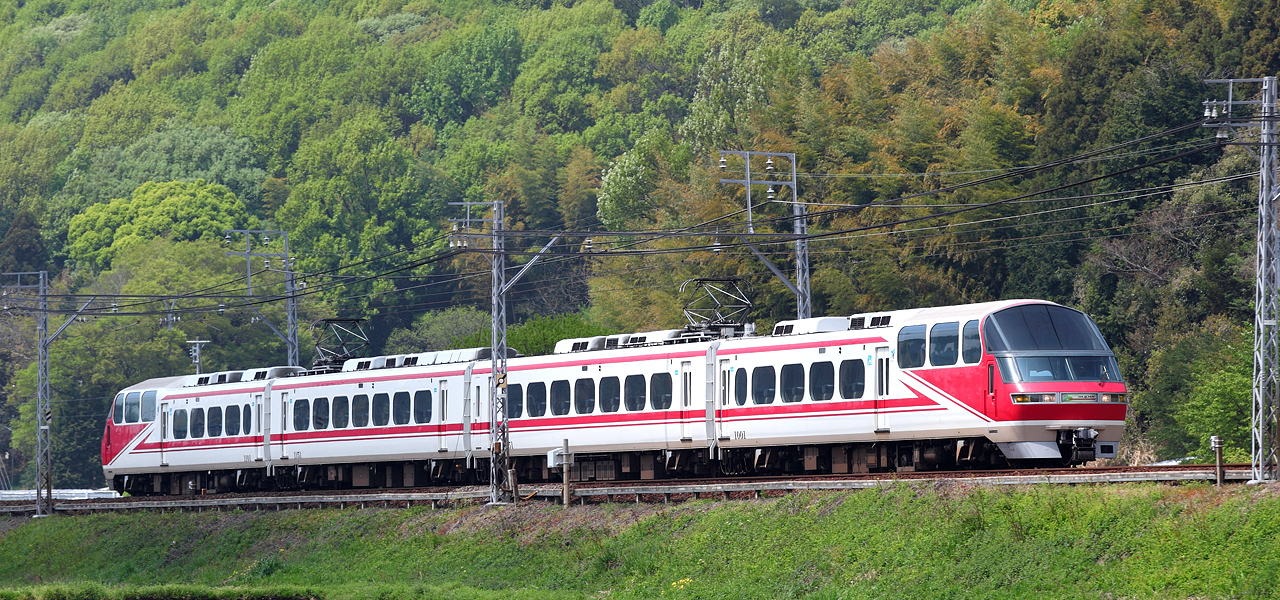 Meitetsu 1000 series 4-car EMU set 1001 between Fujikawa and Meiden-Yamanaka stations